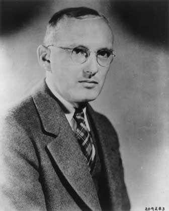 Karl Jansky